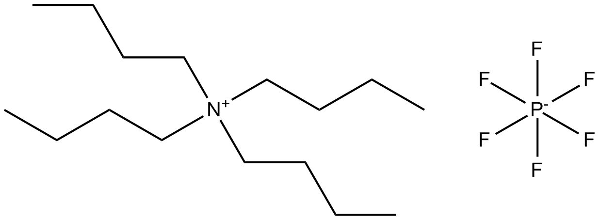 Tetrabutylammonium hexafluorophosphate structure